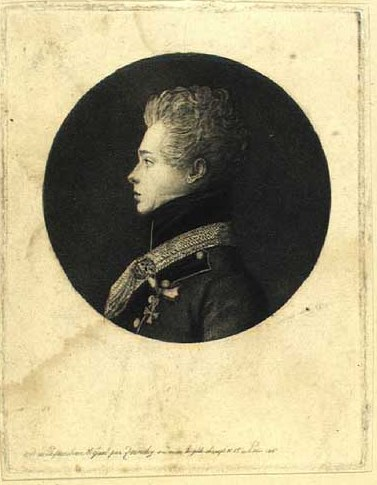 Christian Andreas Vind (1794-1869), Danish nobleman, estate owner, and army officer